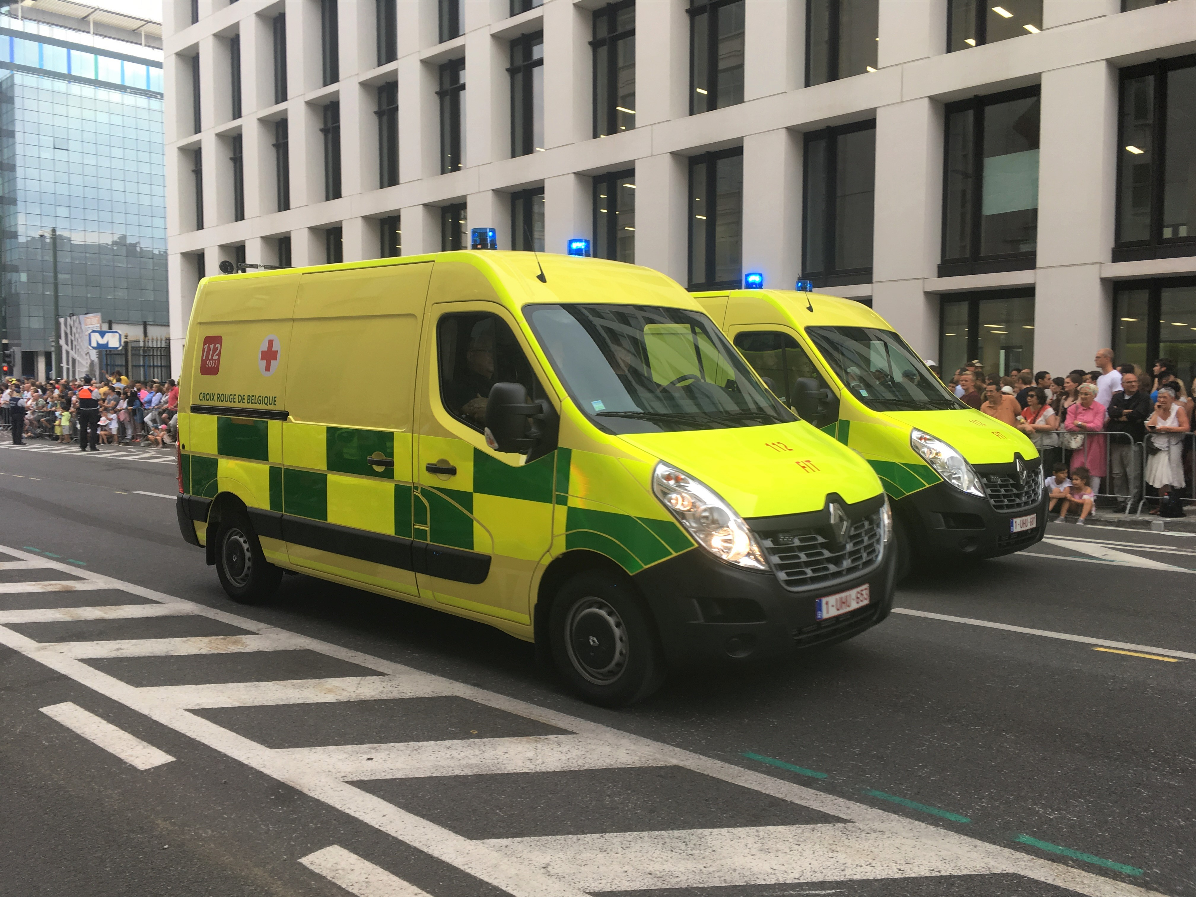 Belgian FIT vehicles (First Intervention Team) of the Red Cross with Battenburg colors during the National Parade on July 21, 2018 (frontside)